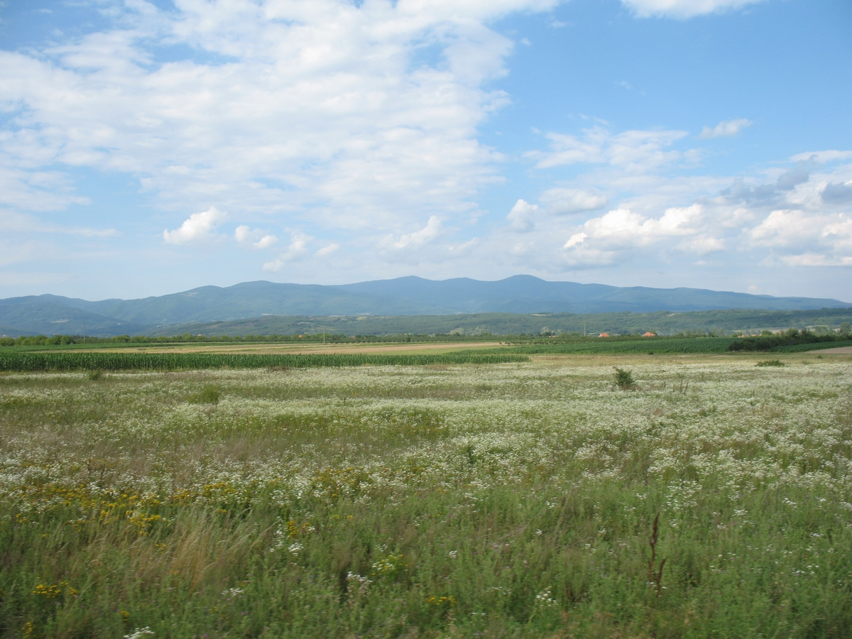 Jastrebac mountain in Serbia, view from Toplica (south).